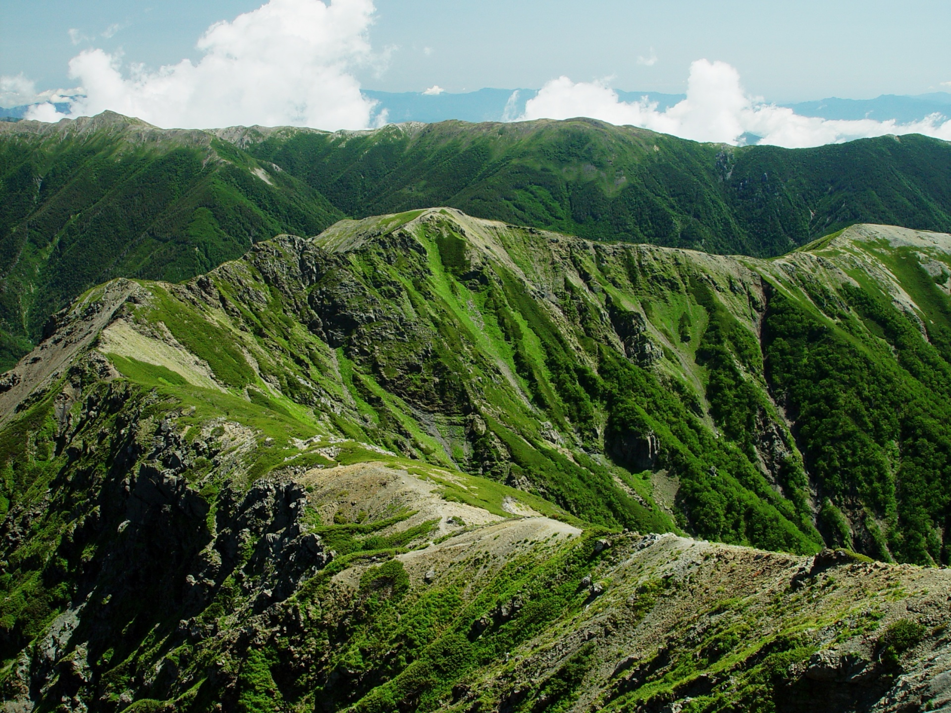 Mount Shirogochi as seen from Mount Shiomi